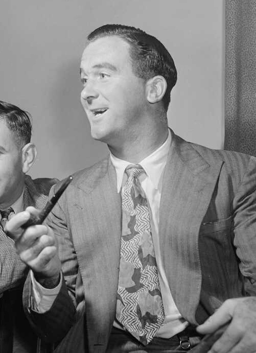 Godfrey Evans, member of the touring English cricket team, photographed circa 5 April 1951 by an Evening Post photographer.